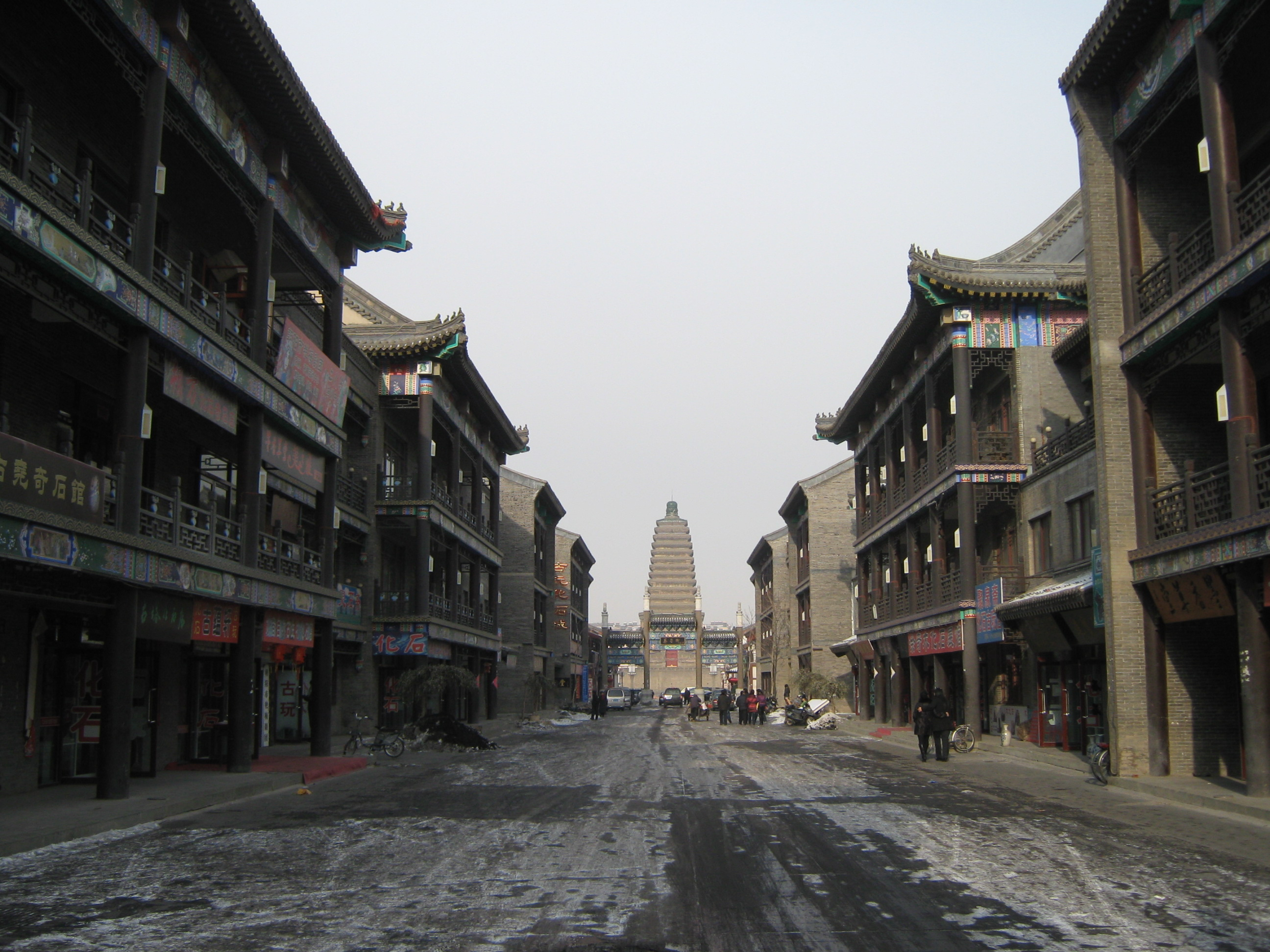 "Ancient Street" in Chaoyang city, the center of the region's fossil trade.